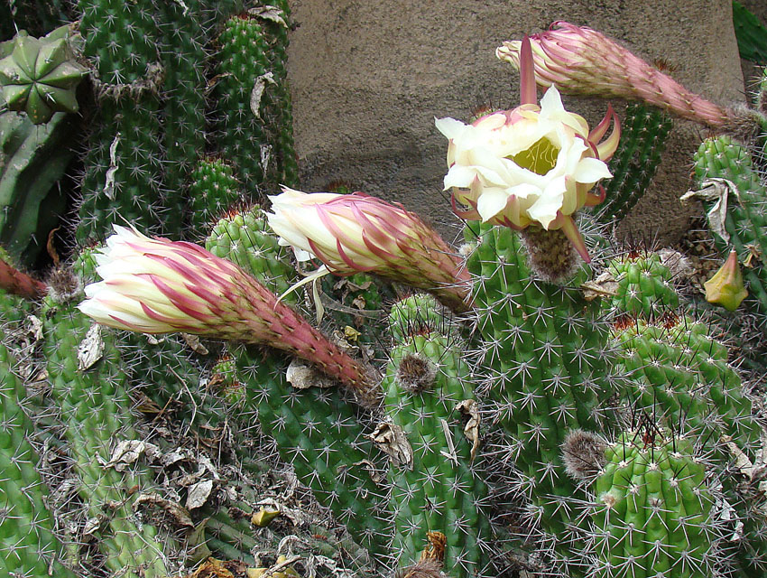 From northwestern Argentina, and one of the species known as Sprawling Torch. In context at